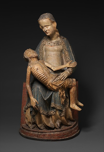 "Pietà (Vesperbild)".